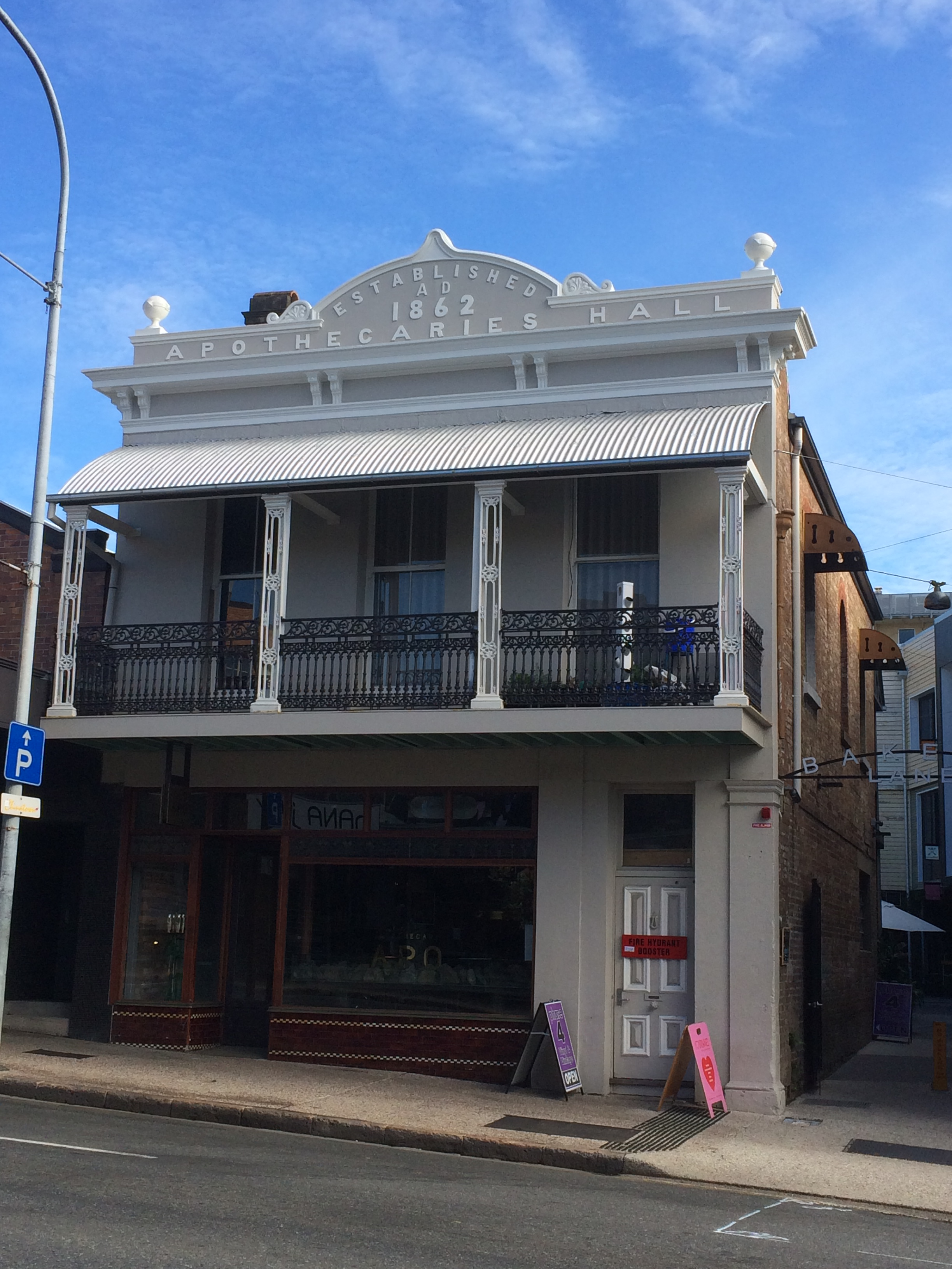 Apothecaries Hall, Fortitude Valley, 2016